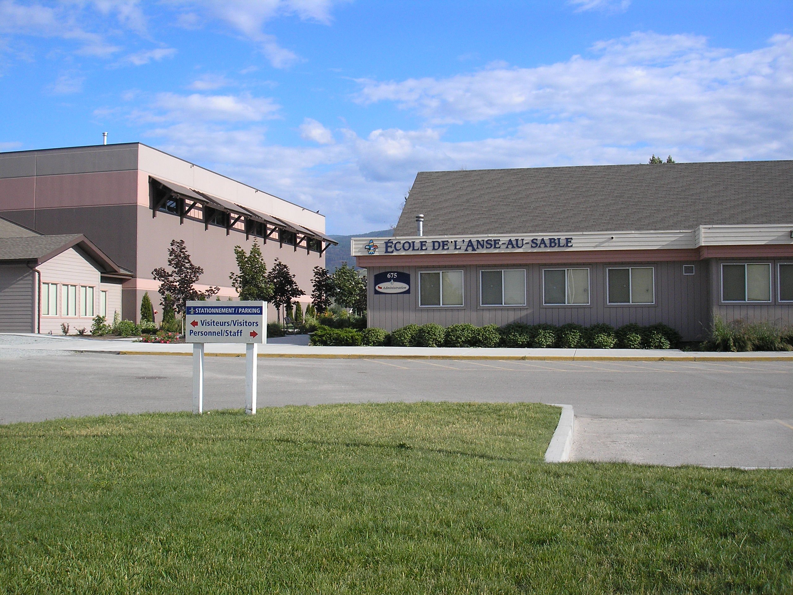 Ecole de L'Anse-au-Sable: French-language K12 school located in Kelowna, British Columbia, Canada